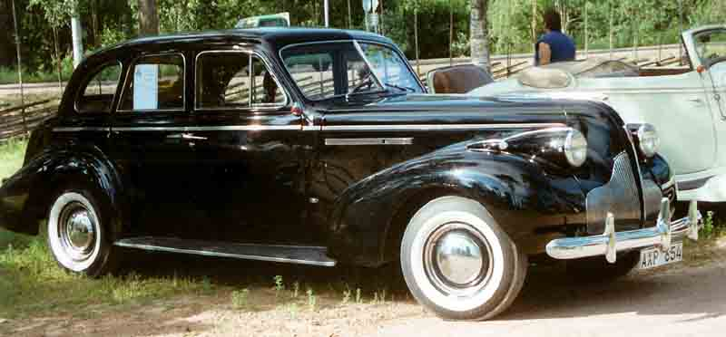 1939 Buick Century Series 60 Model 61 4-Door Touring Sedan